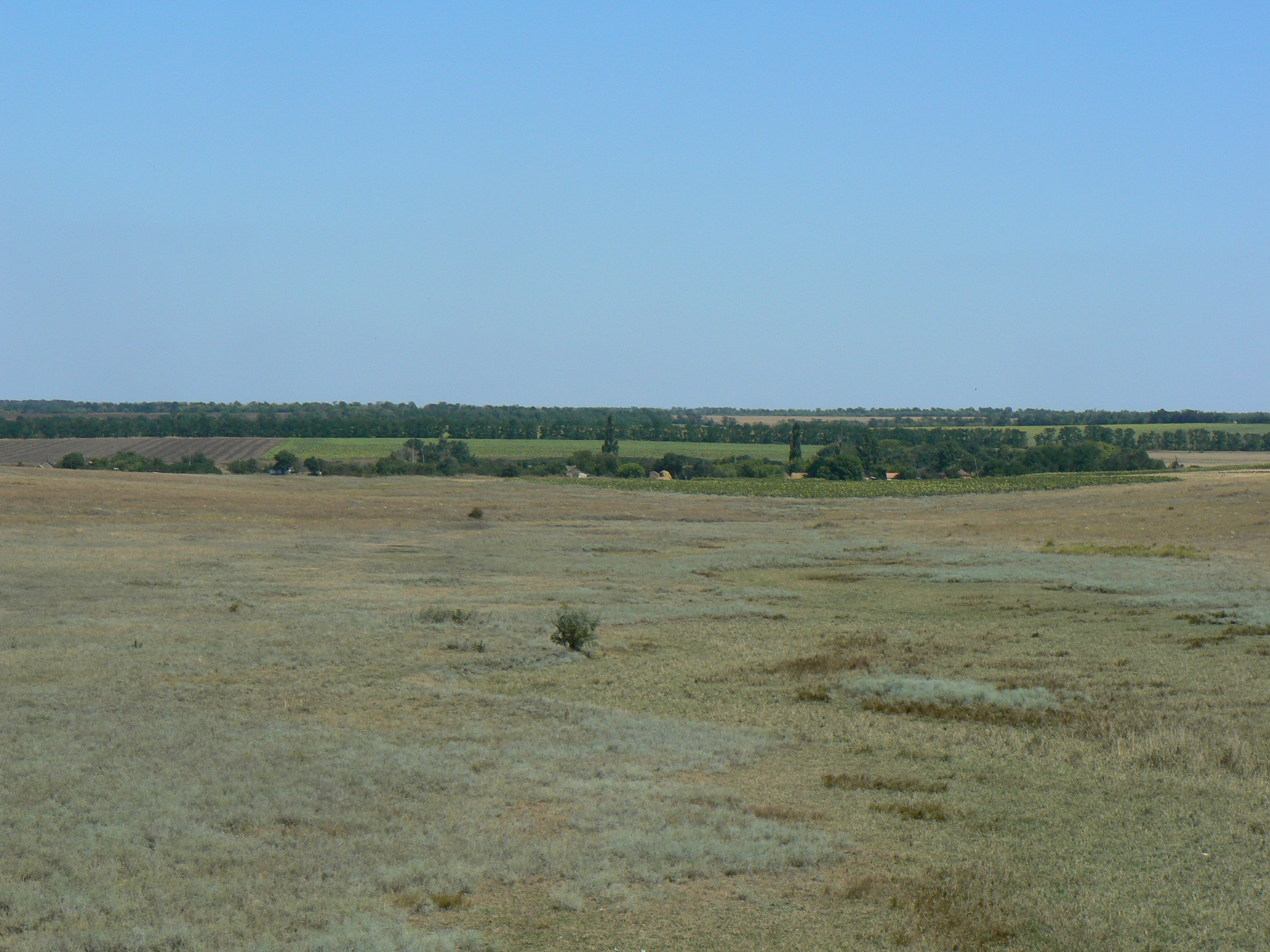 Orlinskoye